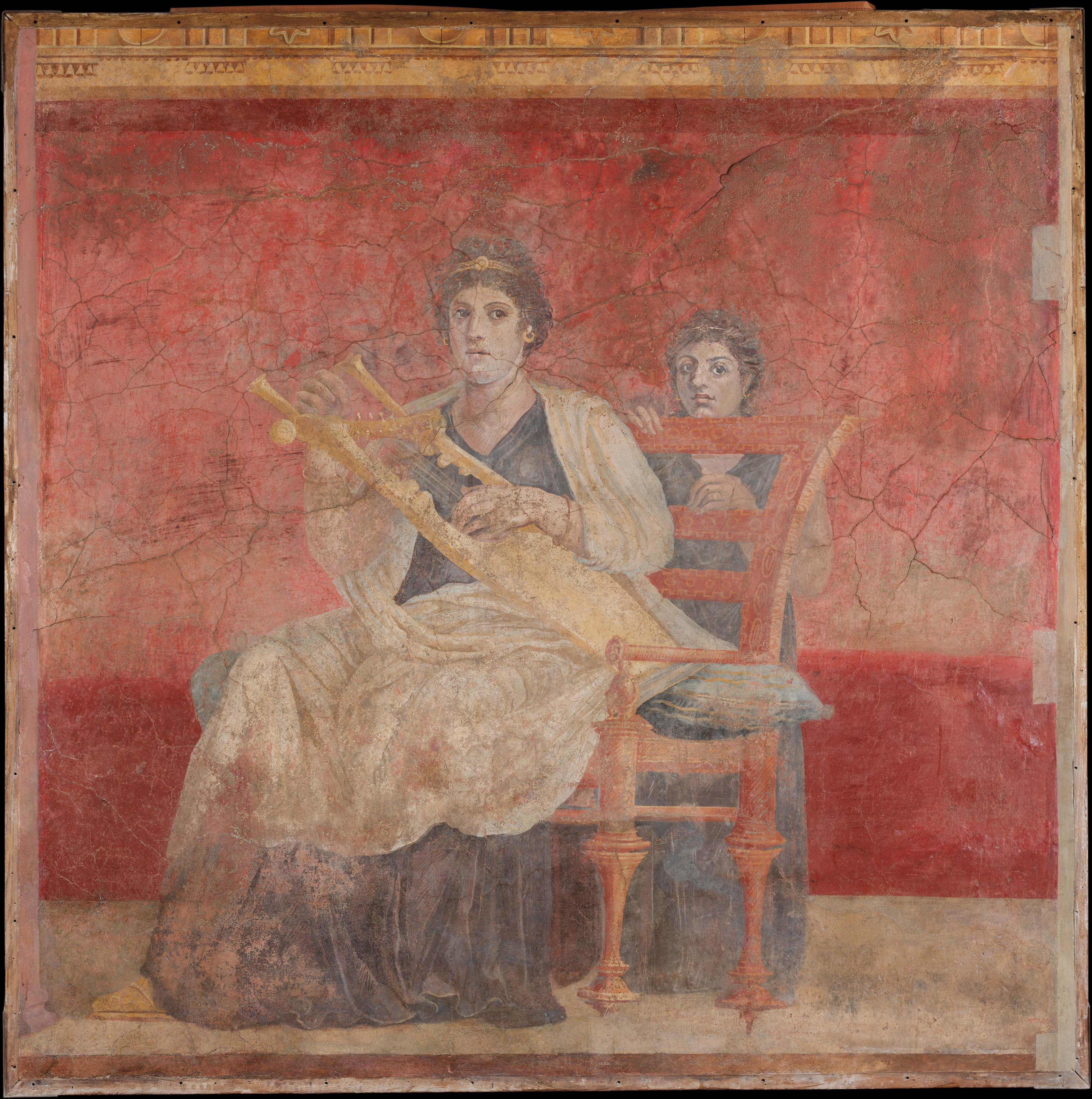 Roman; Wall painting; Miscellaneous-Paintings